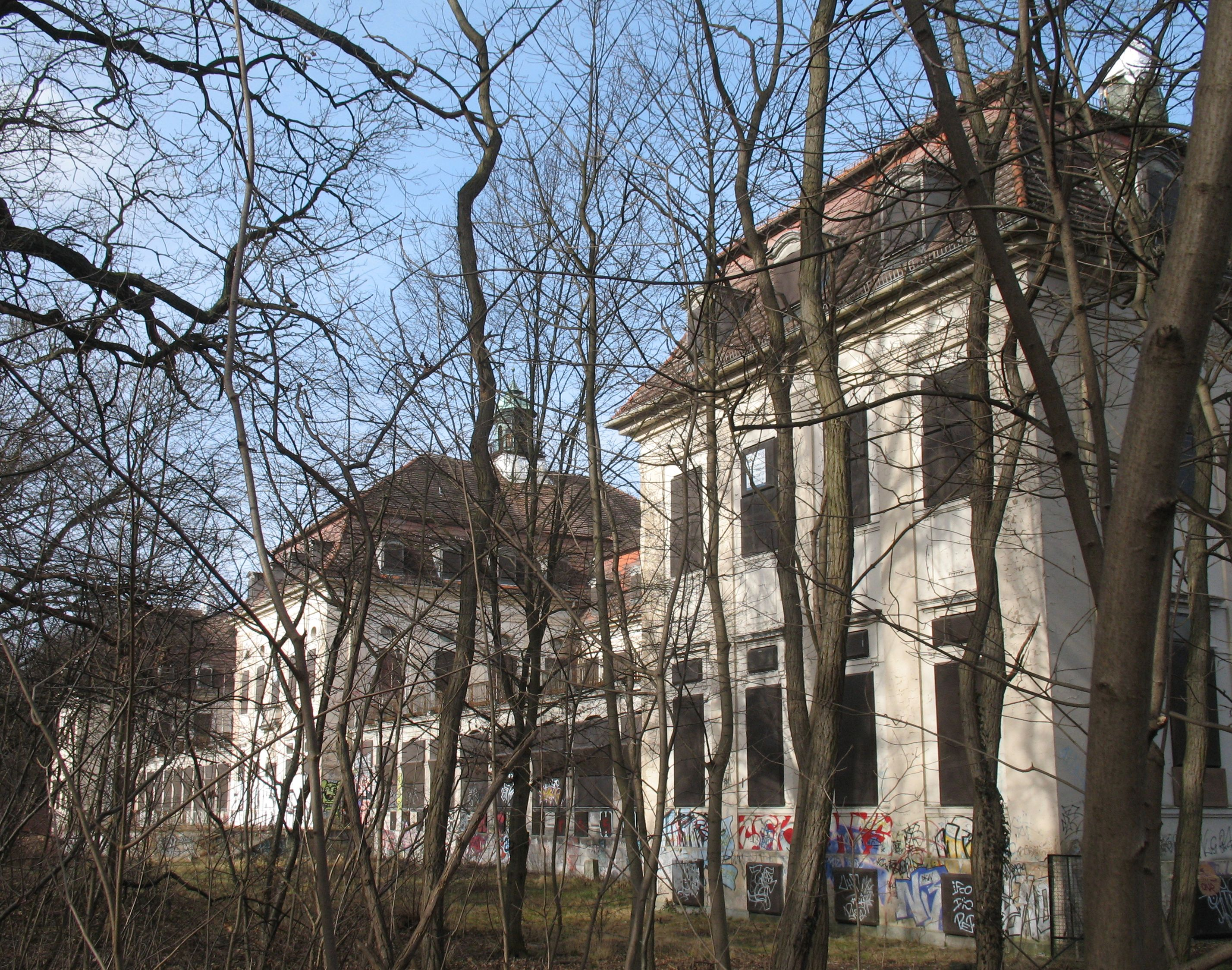 Former sanatorium in Berlin-Buch, Germany